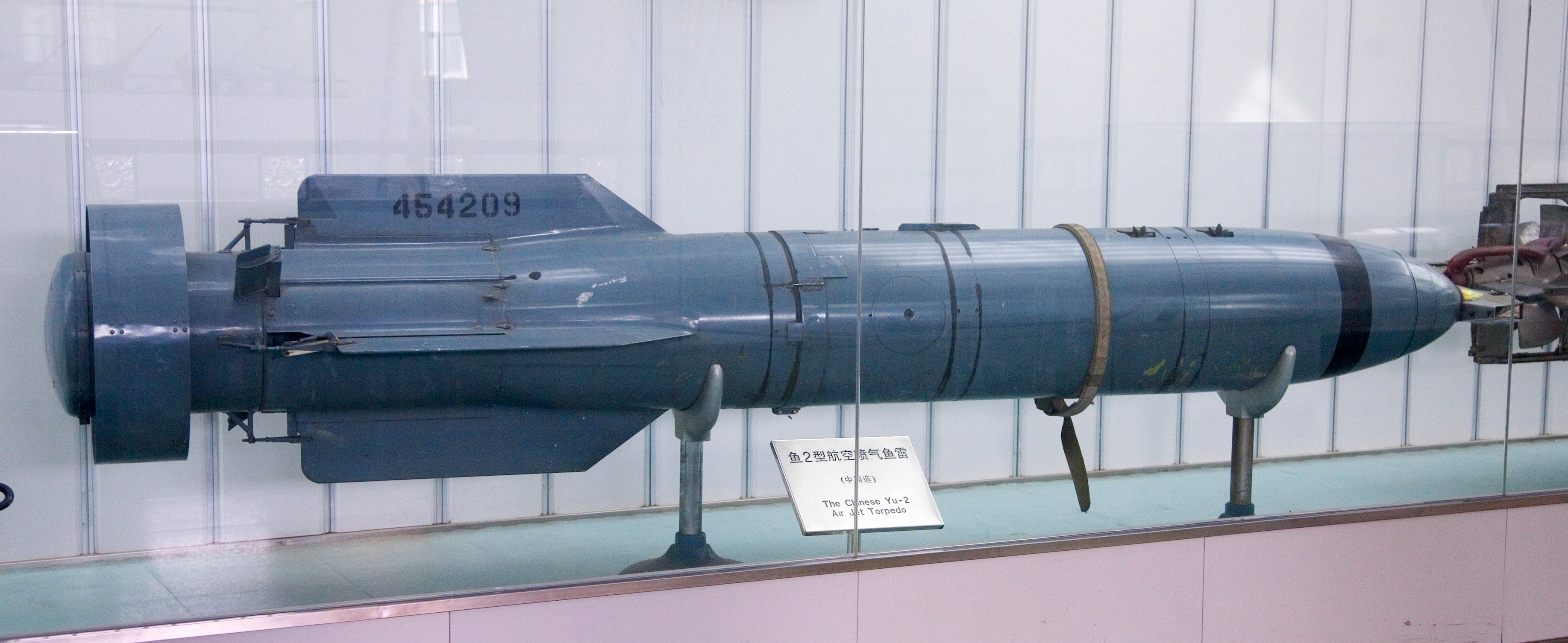 A Yu-2 Torpedo, two merged photographs taken at the Beijing Military Museum